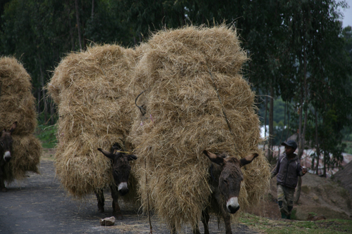 Shots depicting the Lower Valley of the Omo River, UNESCO World Heritage Site, and inhabitants of Southern Ethiopia.